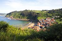 Tazones Beach at Villaviciosa, Principado de Asturias, Spain